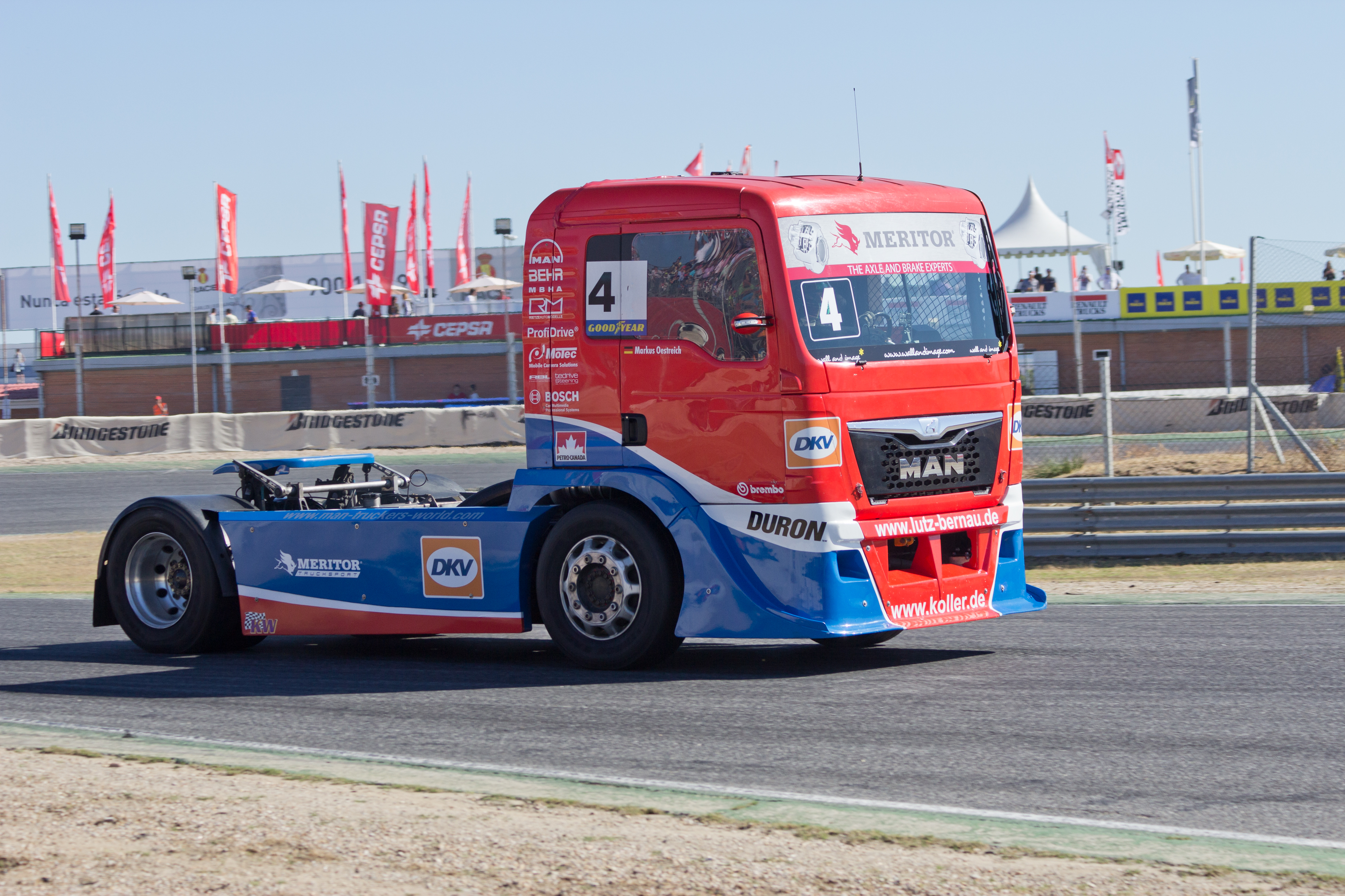 Truck pilot Markus Östreich at the Spain Truck GP 2013.